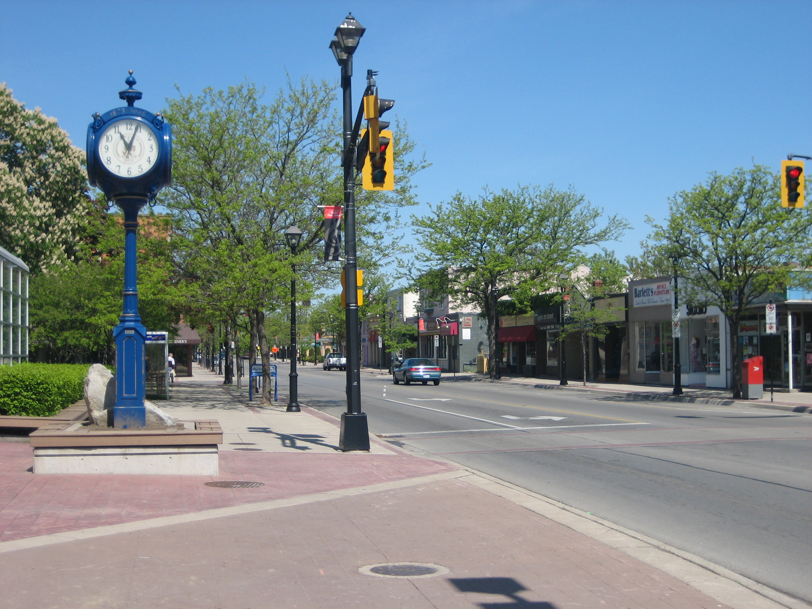 The photo is of Brant Street in downtown Burlington, Ontario, Canada. The photo was taken by Andrew Lynes on May 21, 2007. It was taken for use in the Burlington, Ontario article.